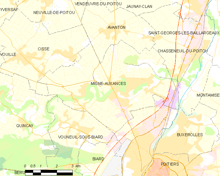 Map of French municipality Migné-Auxances